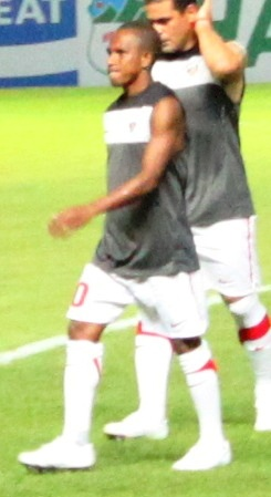 Oktovianus Maniani in Gelora Bung Karno Main Stadium before the final Group A match between Indonesia and Thailand.